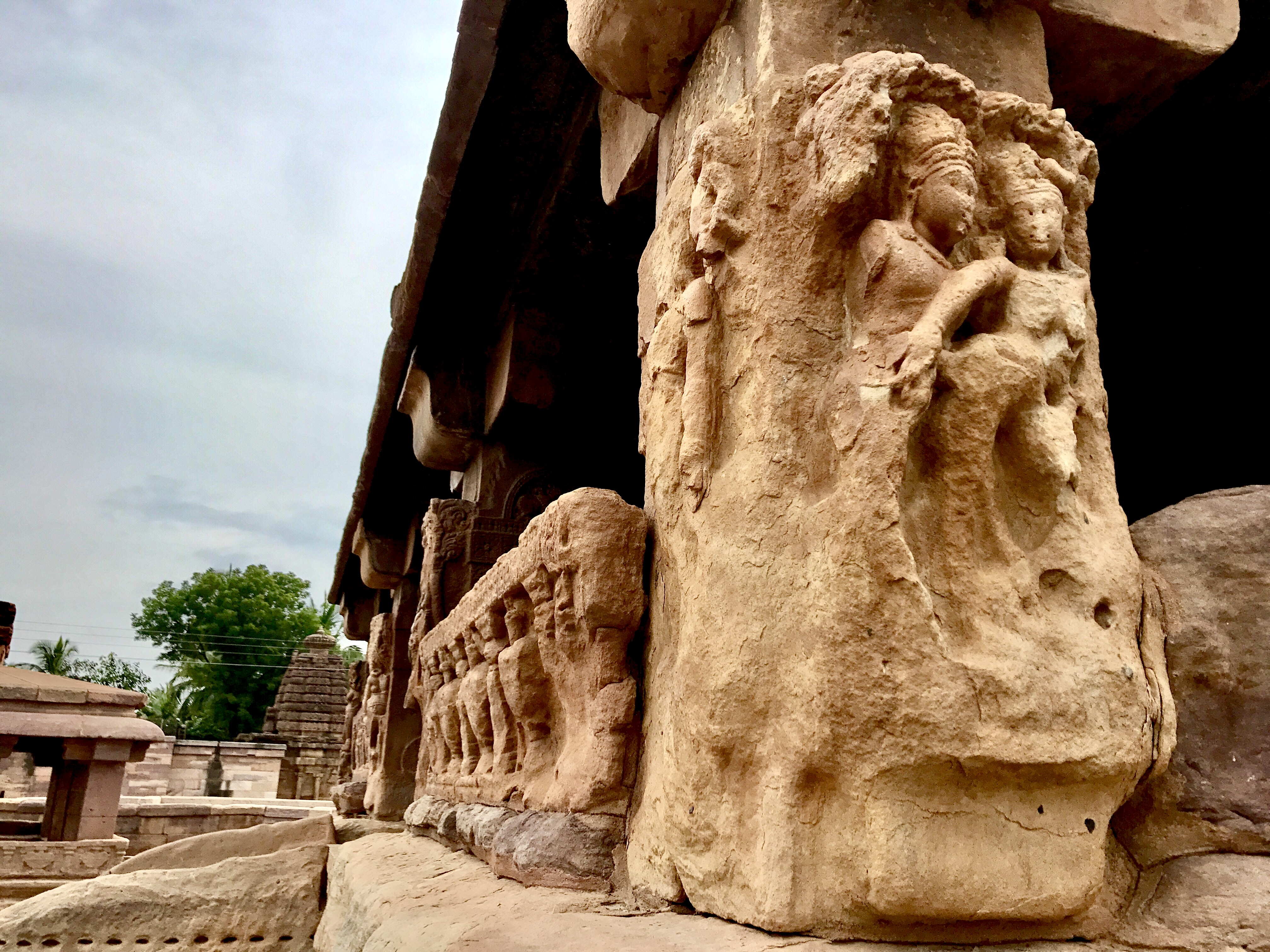 Sculptures on Galaganatha temple in Aihole